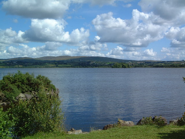 Lough Eske. Photo taken looking East over Lough Eske, Co Donegal.